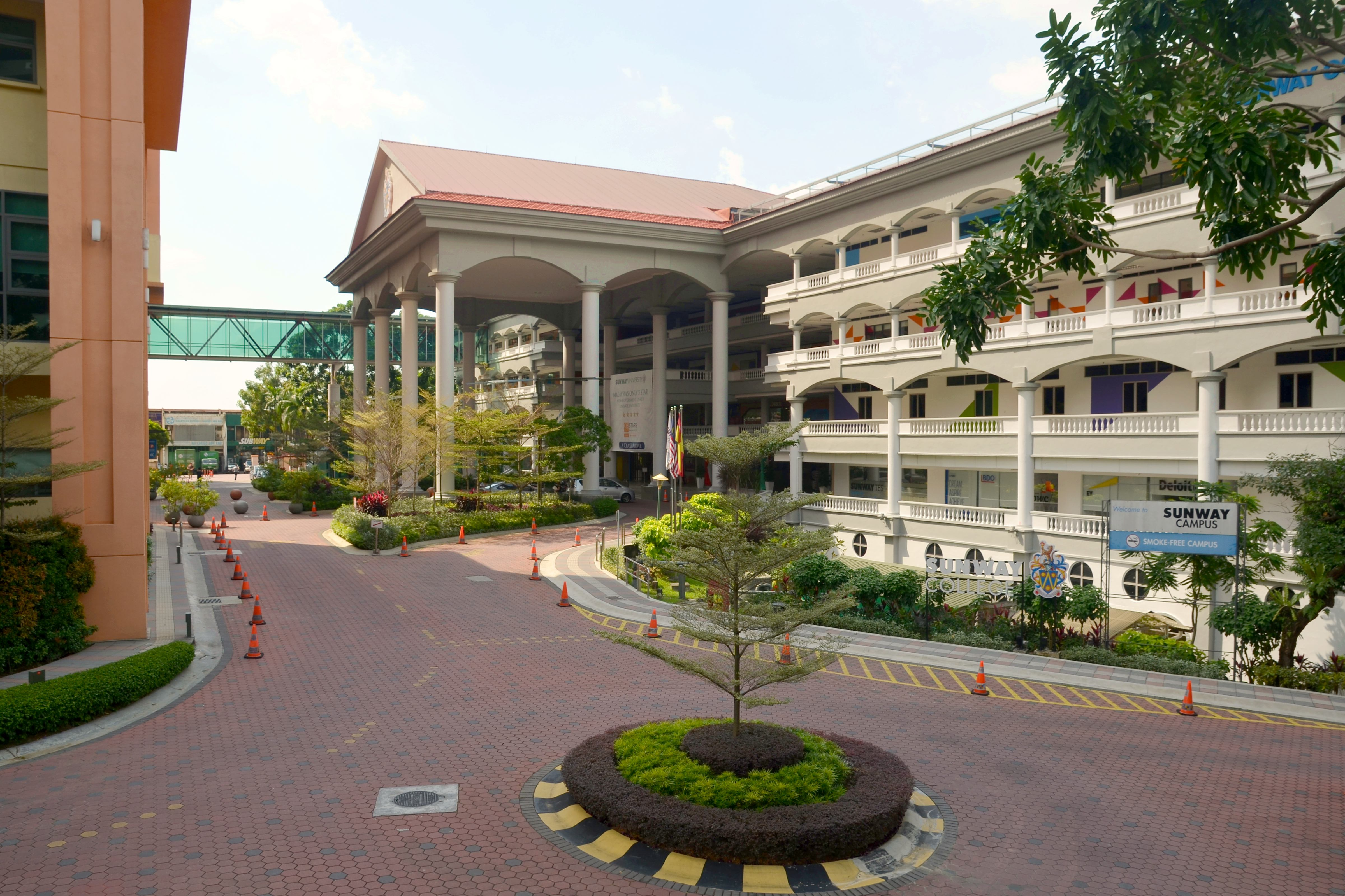 Original building of the Sunway University campus.